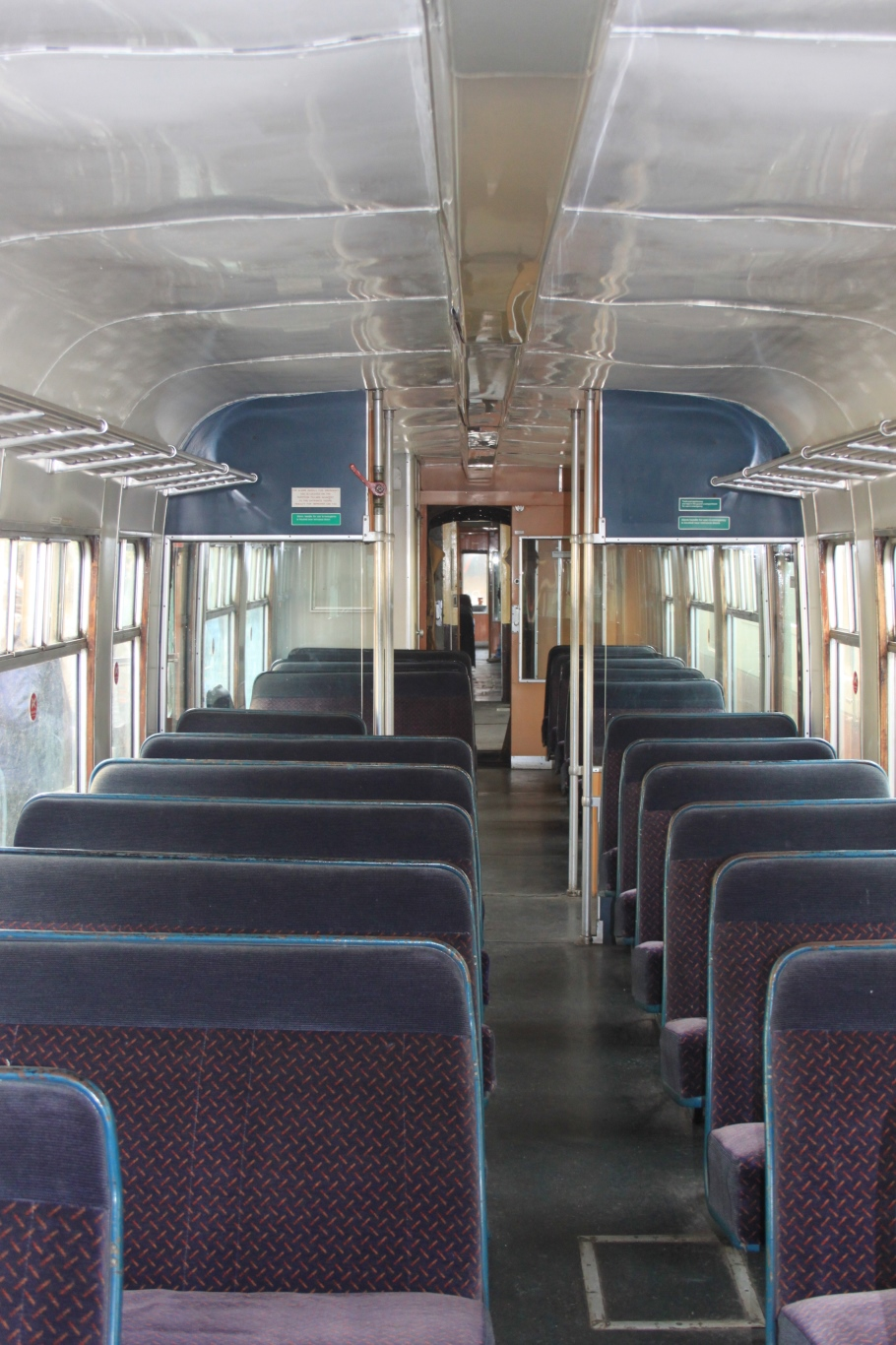 The second class saloon of Class 108 DMU 52054 which is preserved on the Bodmin and Wenford Railway.